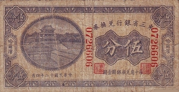 A Chinese provincial banknote issued by a provincial Manchurian bank for circulation in the (3 North-Eastern) provinces of Jilin, Liaoning, and Heilongjiang during the period that the government of the Republic of China still administered the Chinese Mainland.